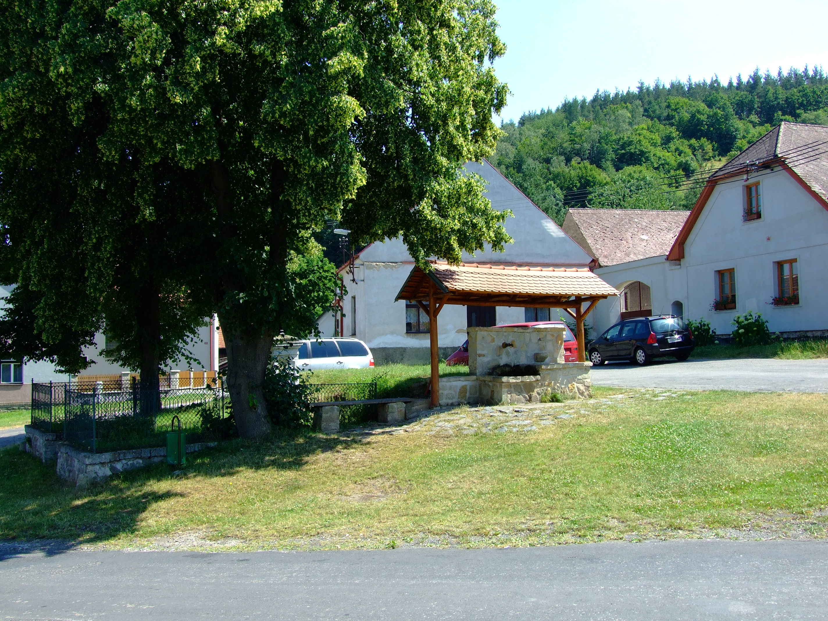 Stradonice, part of Nižbor town in Central Bohemian region, CZhelp